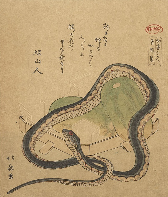 b- or c-surimono, signed Hokusai from around 1920, original version was designed by Totoya Hokkei around 1820